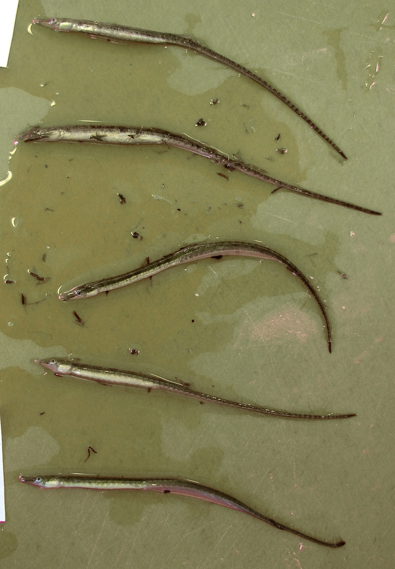 Black-striped pipefish (Syngnathus abaster) from the St. Nazaire Lagoon, France